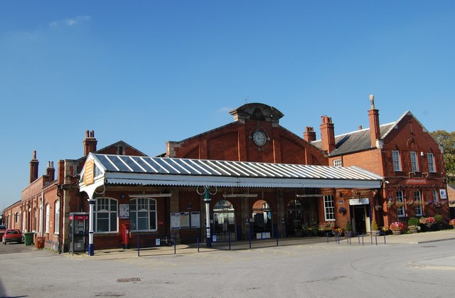 Bridlington Station, interesting station buffet